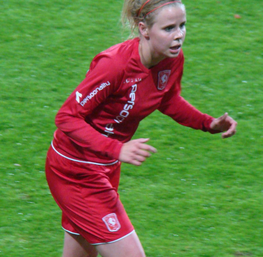 FC Twente player Carmen Bleuming